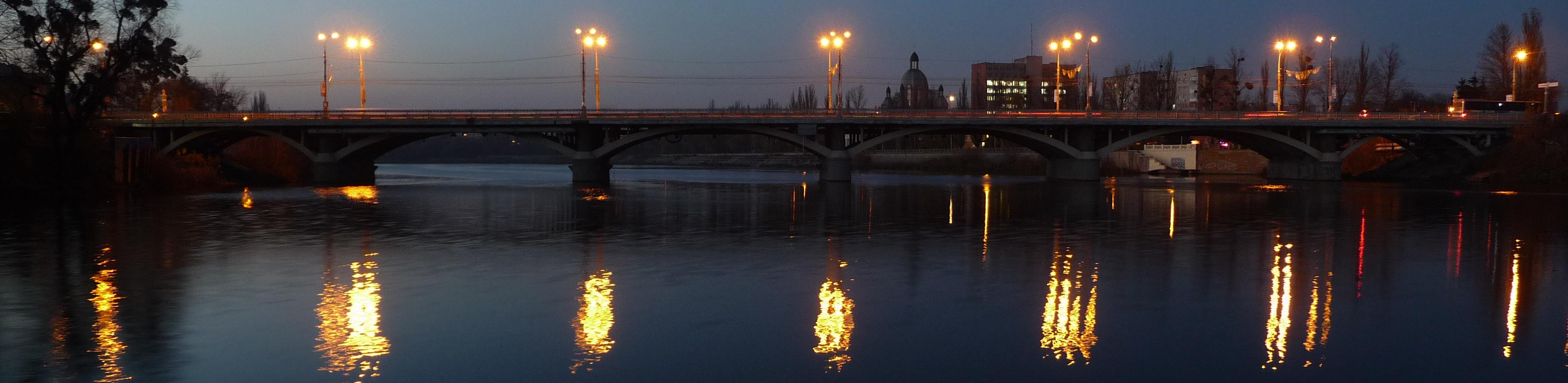 The bridge over the Southern Bug river in the evening. Ukraine, Vinnitsa